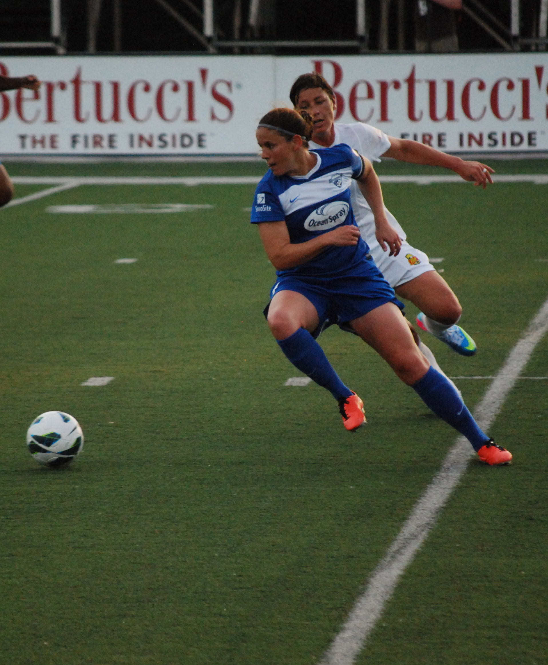 Cat Whitehill defends against Abby Wambach of the Western New York Flash on June 5, 2013 in Somerville, Massachusetts.